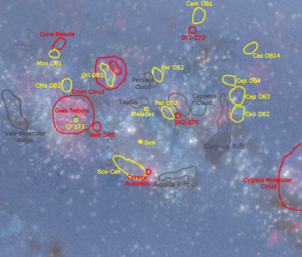 Map of Local Spur (Orion Arm)